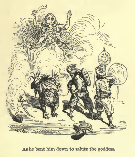 Illustration by Ernest Griset (1844-1907) from Richard Francis Burton's Vikram and the Vampire (1870)